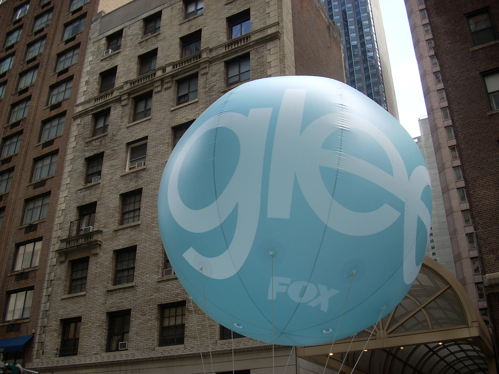 Fox Upfronts, New York City Center, New York - May 18, 2009